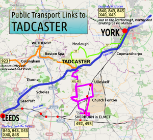 Thumbnail map of transport links (bus and train) to Tadcaster in 2014. From the Tadcaster Walkers are Welcome site.